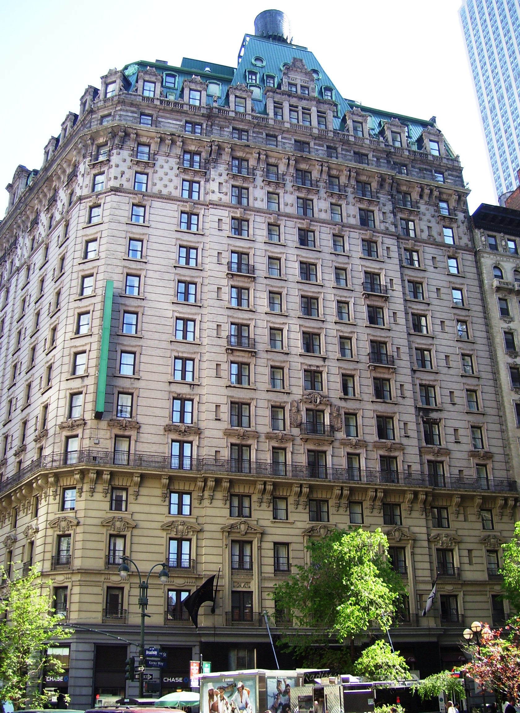 The Radisson Hotel at 53 West 32nd Street, also known as 1260-1266 Broadway, on the corner of Broadway off of Greeley Square in Manhattan, New York City, was built as the Hotel Martinique, name after its owner, William R. H. Martin, in 1897-98 and expanded in 1901-03 and 1909-11. It was designed by Henry Janeway Hardenbergh in French Renaissance style. In the 1970s and 1980s, the building was an emergency shelter and a welfare hotel. It was renovated in the 1990s, and has since served as a Holiday Inn, and now a Radisson Hotel. The building was designated a New York City landmark in 1998. (Sources: Guide to NYC Landmarks (4th ed.) an AIA Guide to NYC (4th ed.))